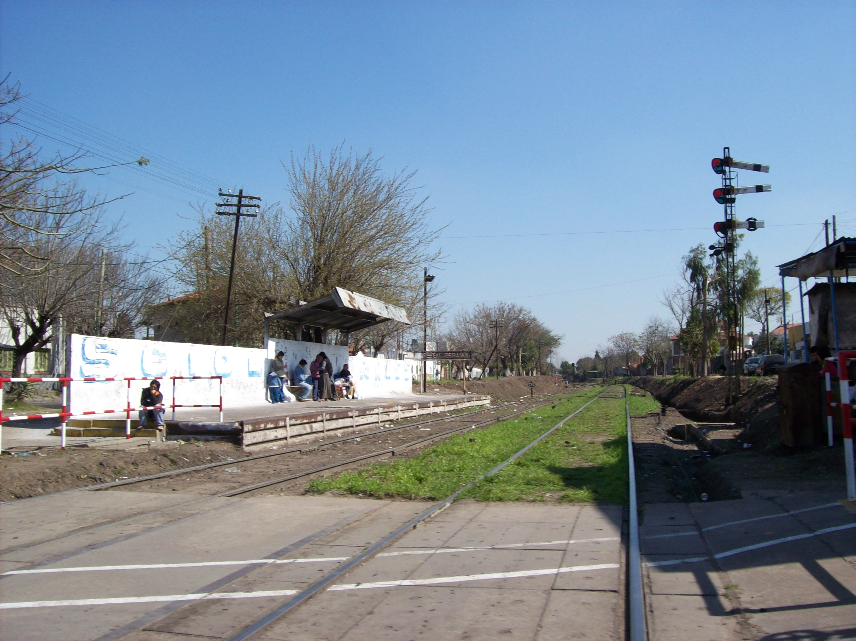 Hospital Español railroad station, in Temperley - Haedo branch, as seen from Hipolito Yrigoyen Avenue.